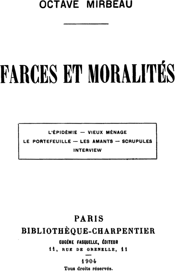 Six Morality Plays (1904) by Octave Mirbeau (1848-1917)